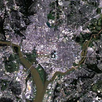 Landsat image of Washington, DC According to